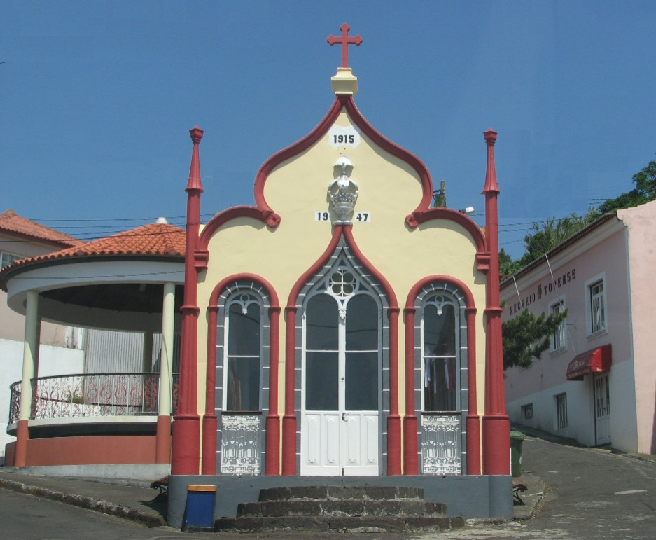 Holly Ghost "império" (chapel) of Topo, Azores.